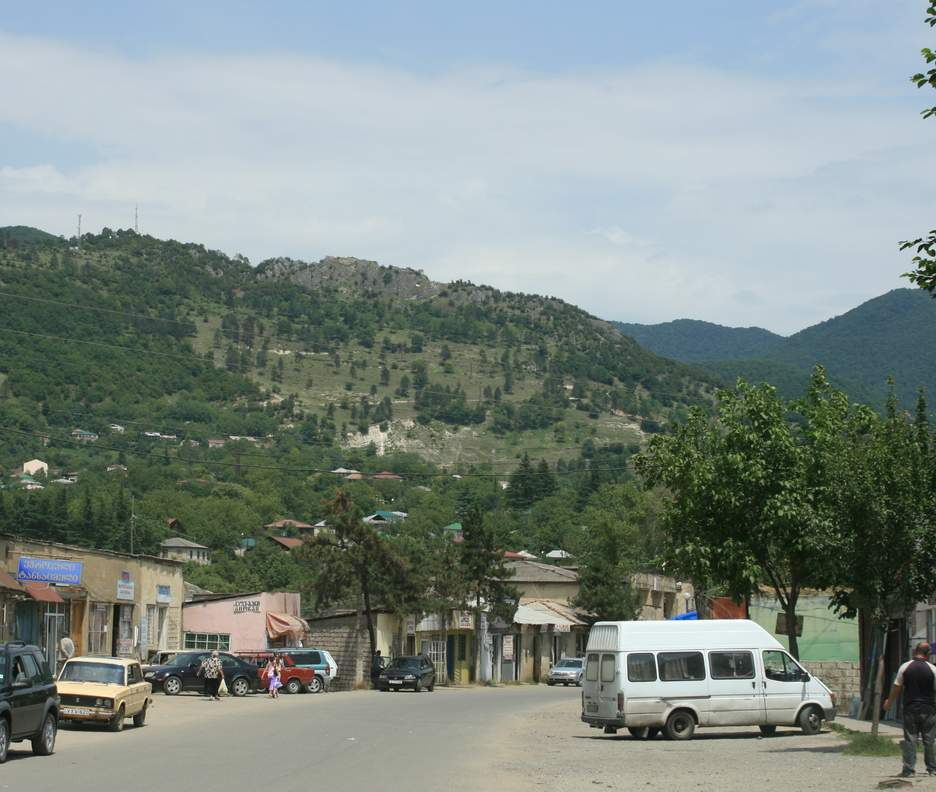 Sachkhere. View on Modinakhe fortress